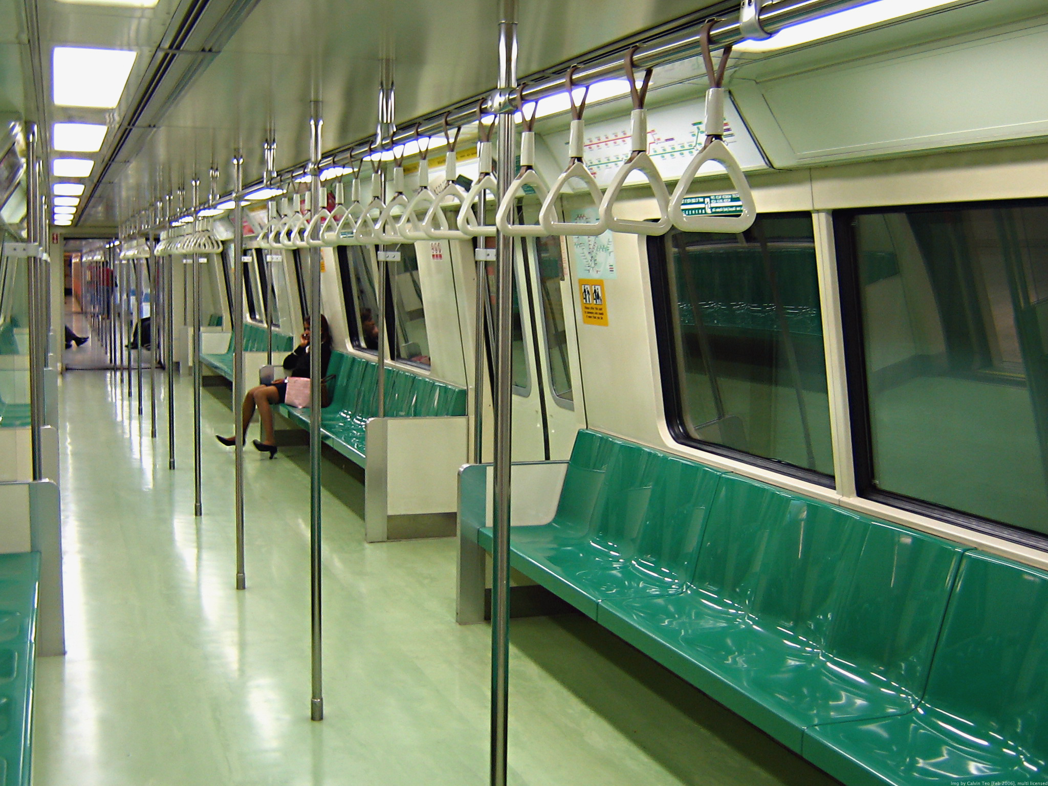 The interior of a Siemens C651 car, carriage no. 2231, on the East West Line, showing the central motor cars of the train.